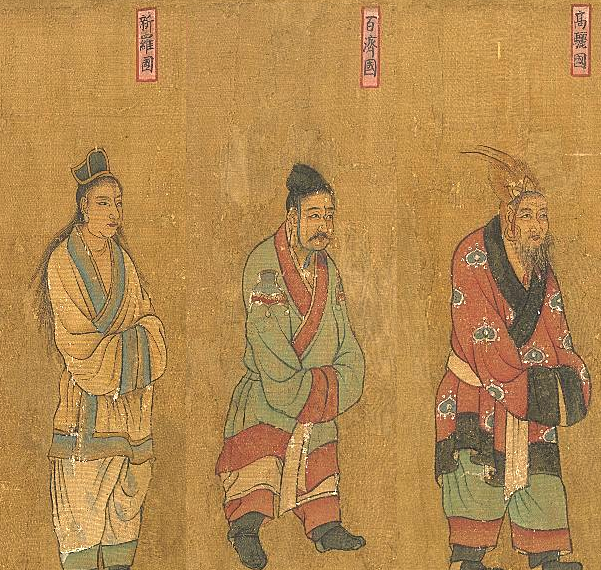 An edited version of the 7th-century 《王会图》 which includes envoys from three kingdoms in Korea.